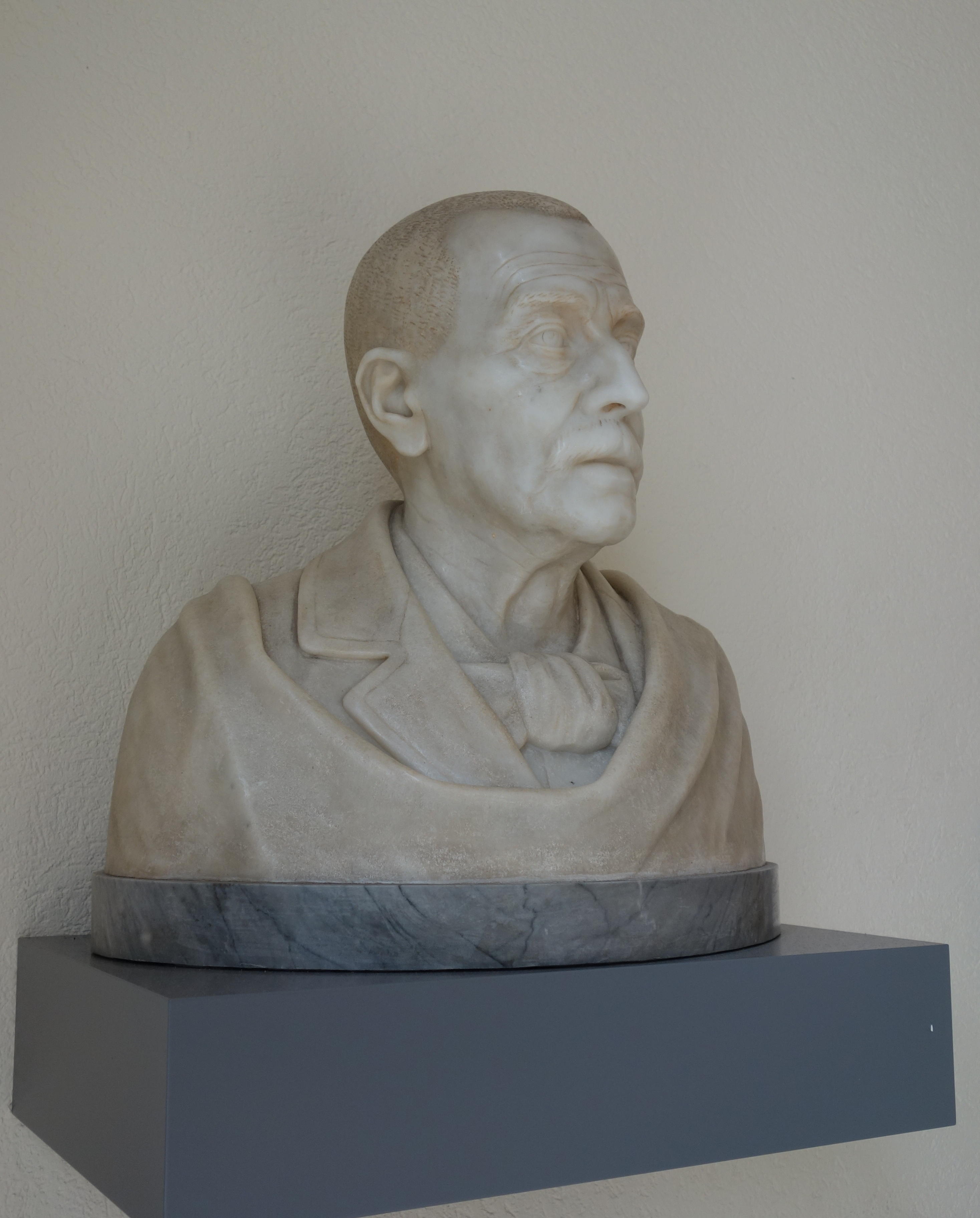 Bust of Jakob Burckhardt by Arthur J.W. Volkmann (Rome, 1899), at Kollegienhaus (University of Basel)